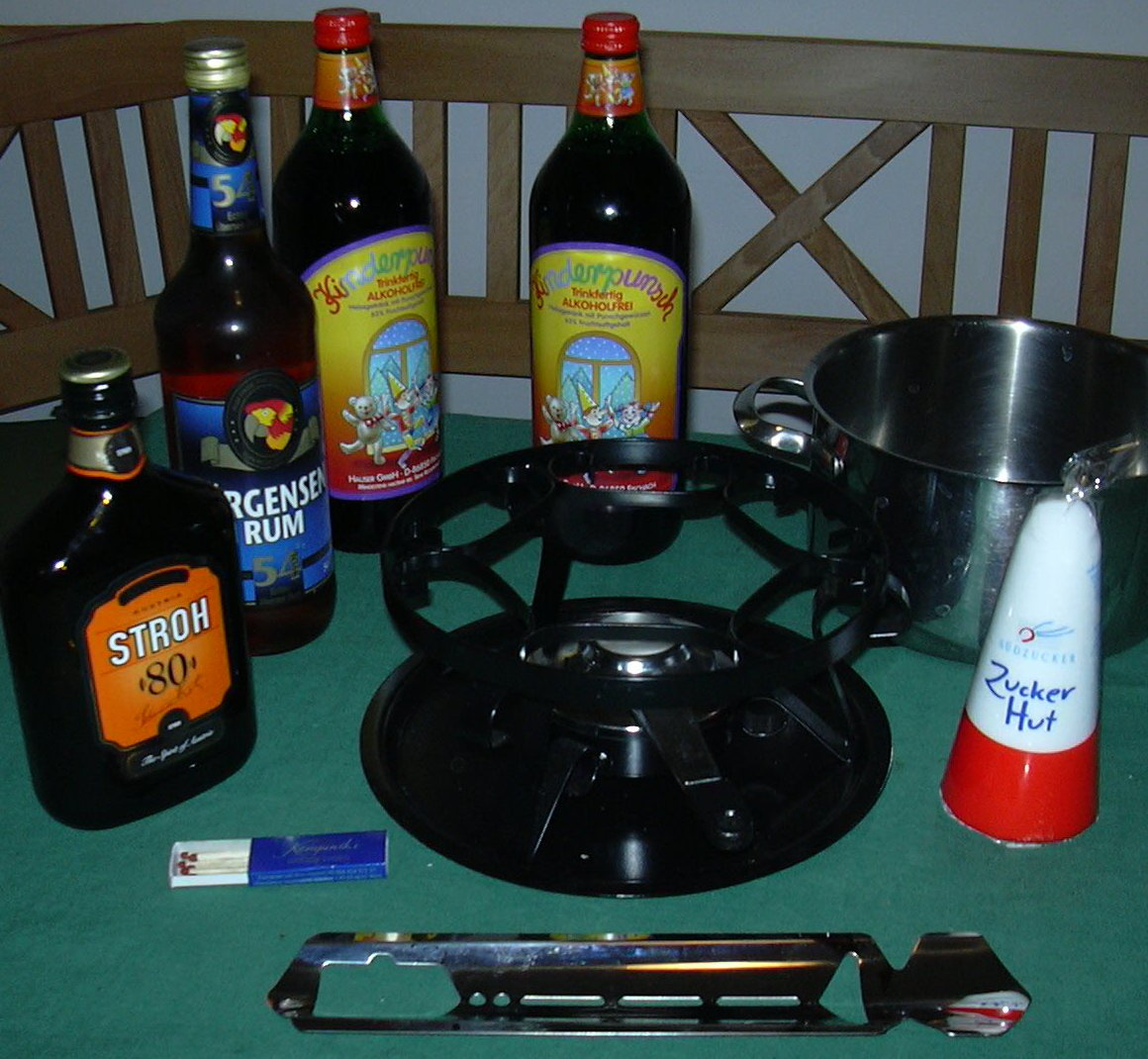 incredients for a burnt punch Nachbearbeitung / postprocessing: Oliver Merkel with The GIMP